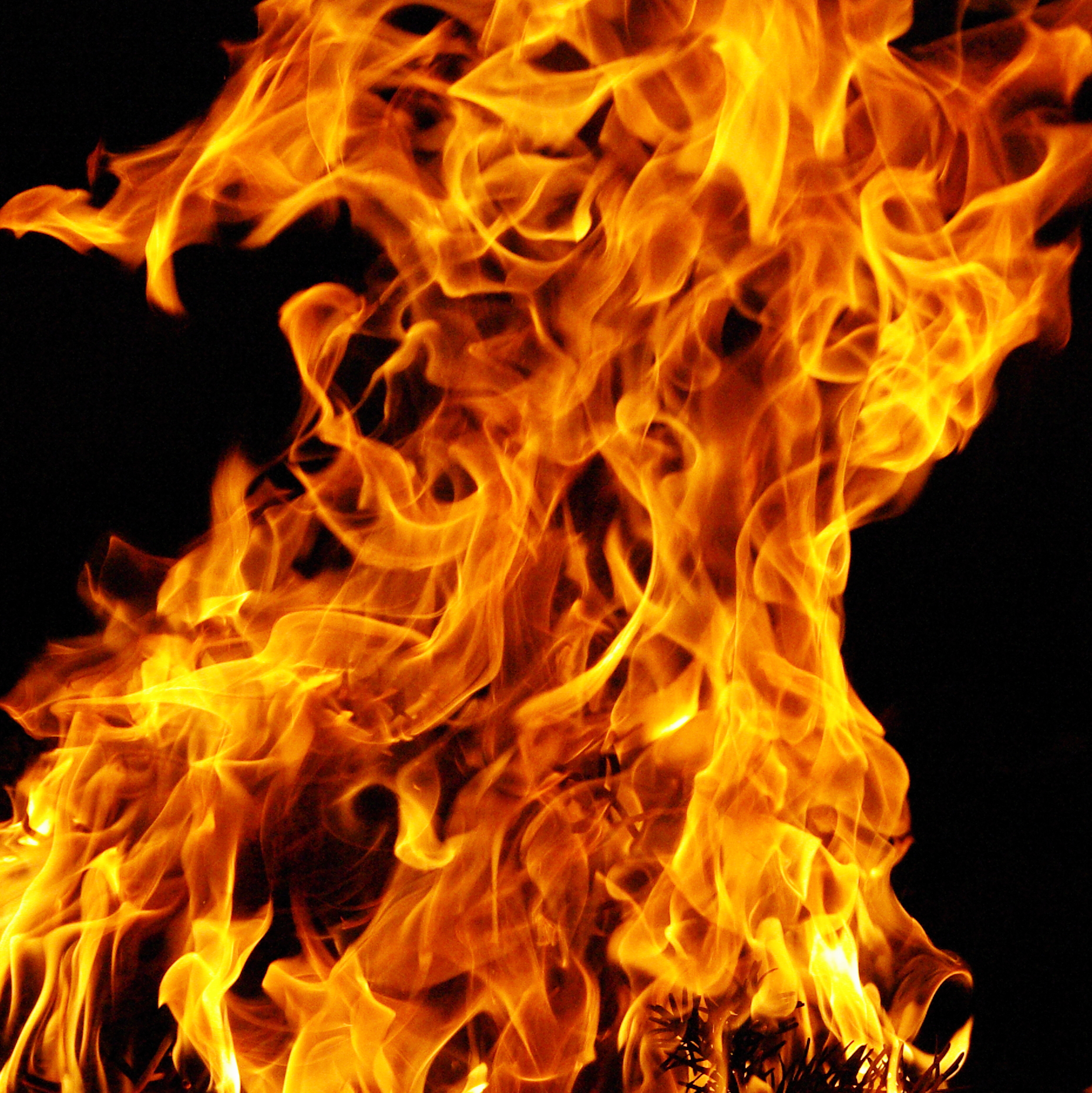 Close up of bonfire (in Berlin-Kladow)